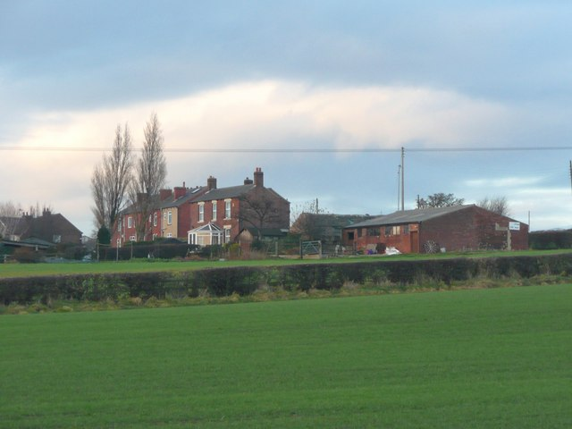 Houses and farm building, Batley Road, Kirkhamgate Taken from Park Mill Lane. The farm building belongs to Lindale Farm.